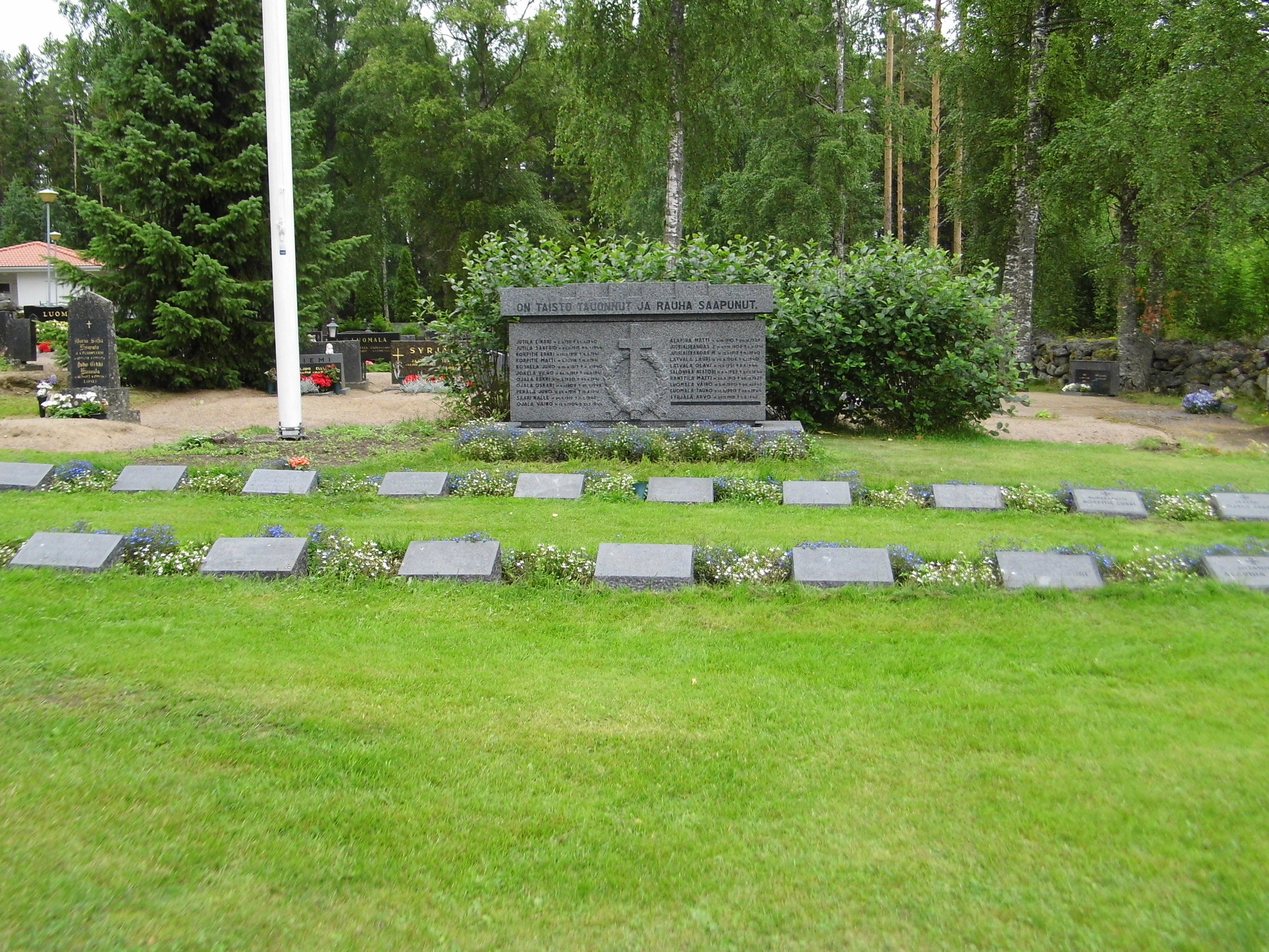 Military cemetary at church in Kauhajärvi, Finland